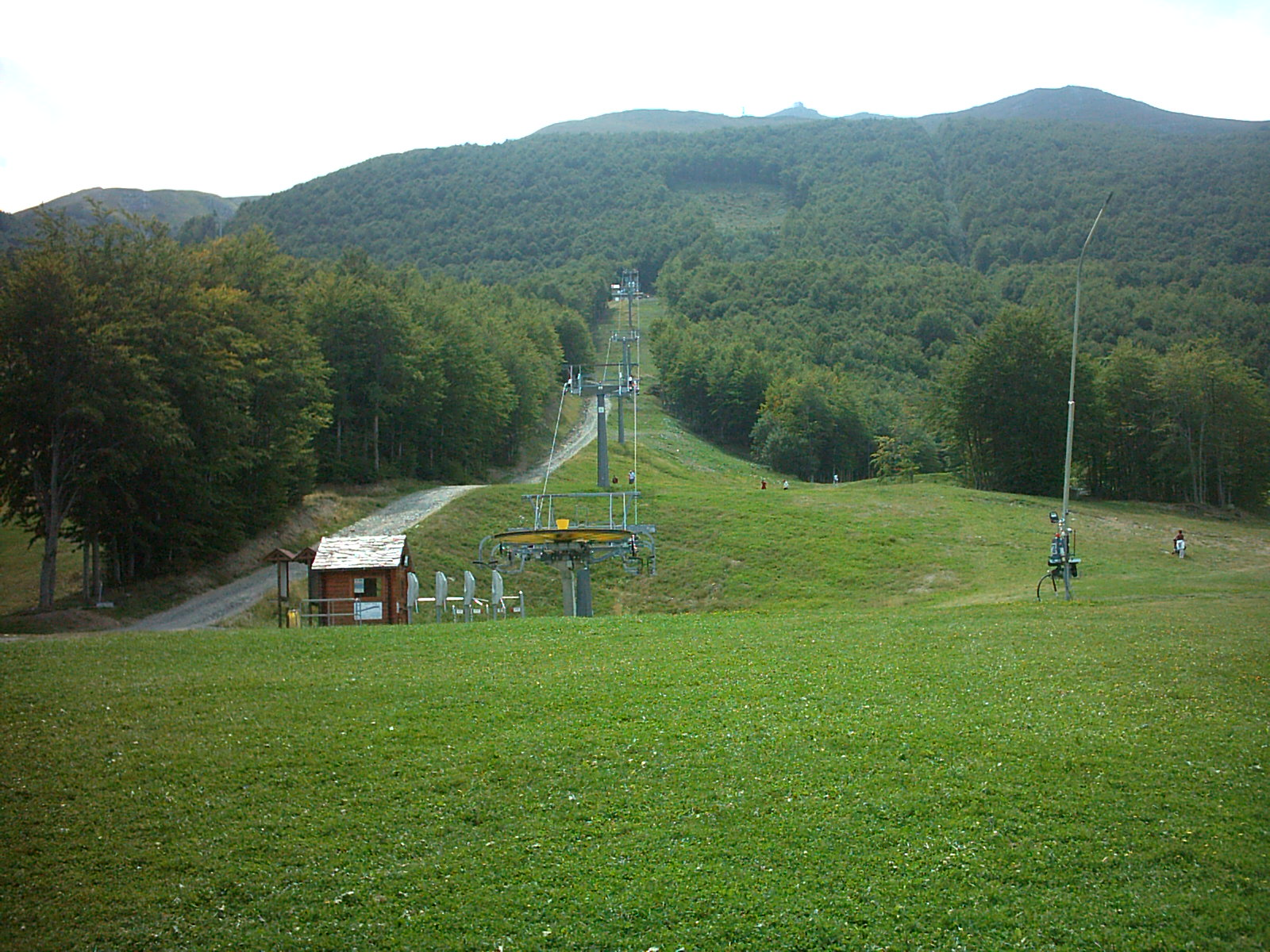 Photo taken by own. Now reloaded with appropriate tag.